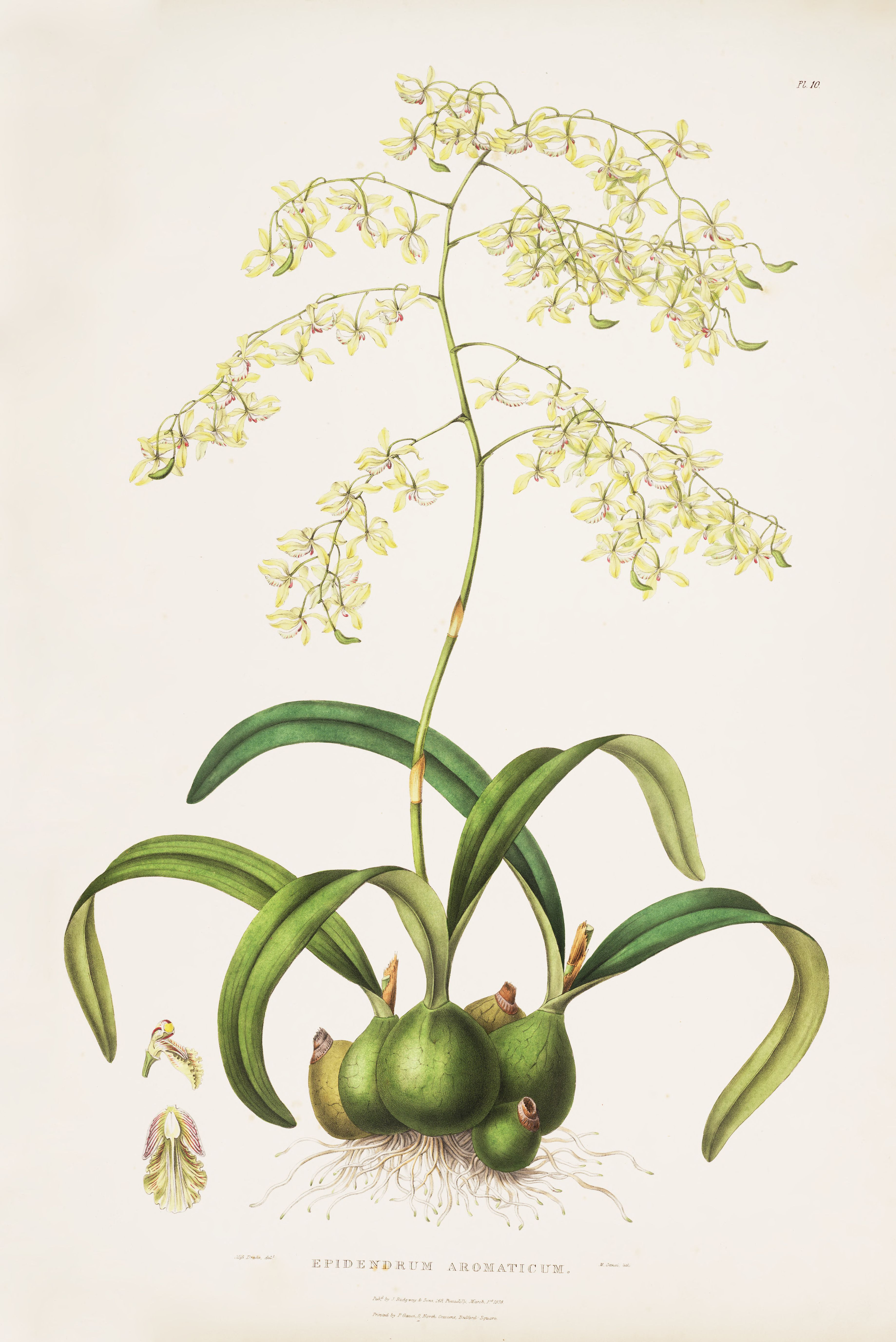 Illustration of Encyclia incumbens (as syn. Epidendrum aromaticum)